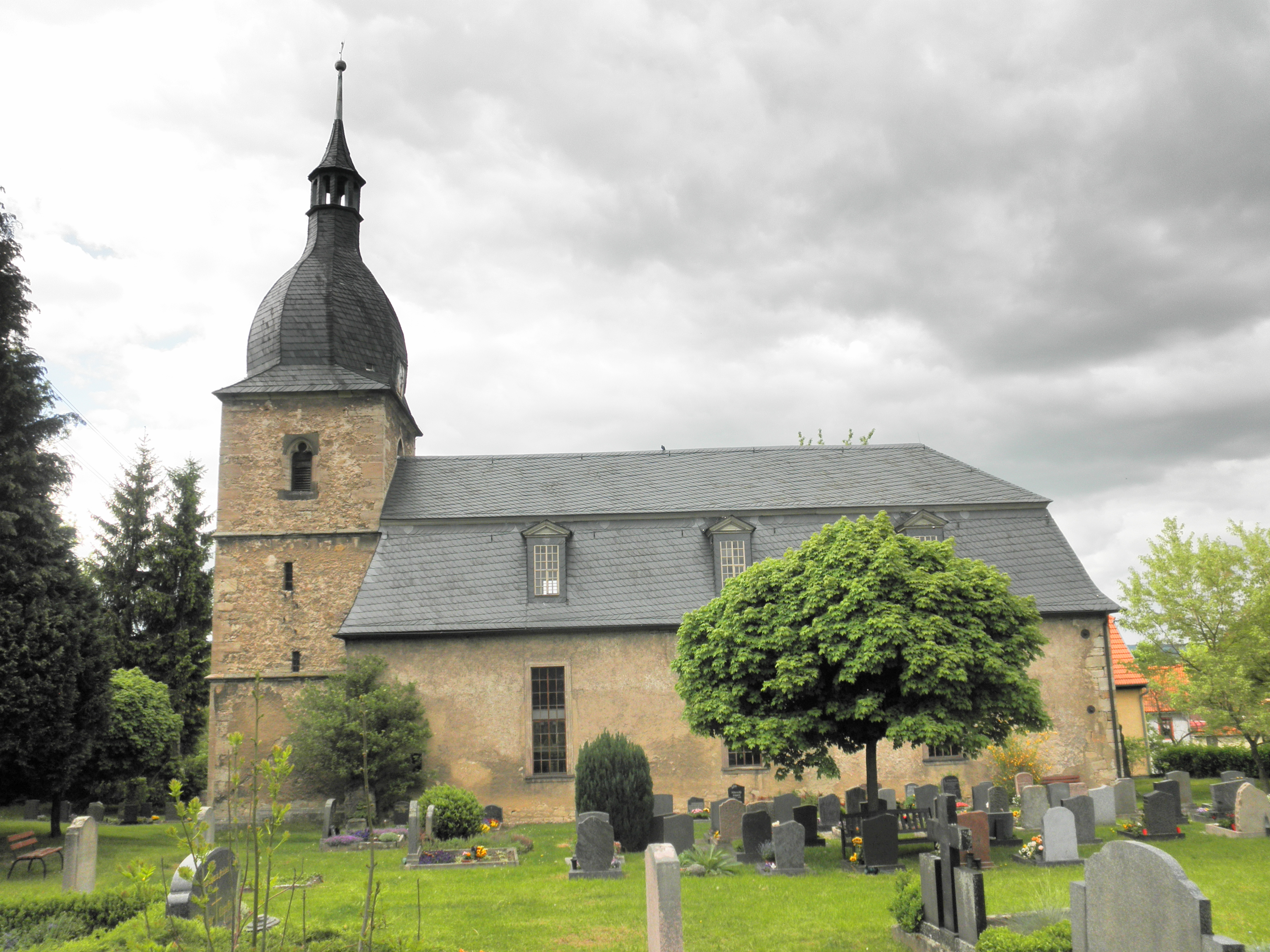 Church in Niedergrunstedt (Weimar) in Thuringia